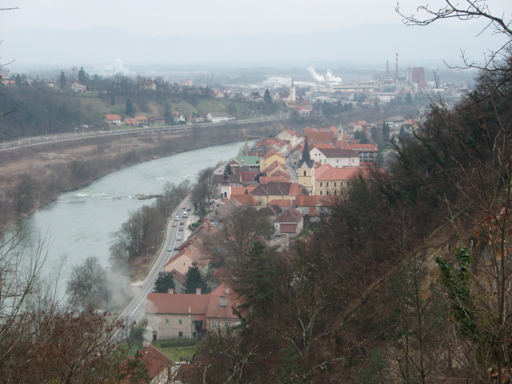 The town Krško from the hill of Krško Castle